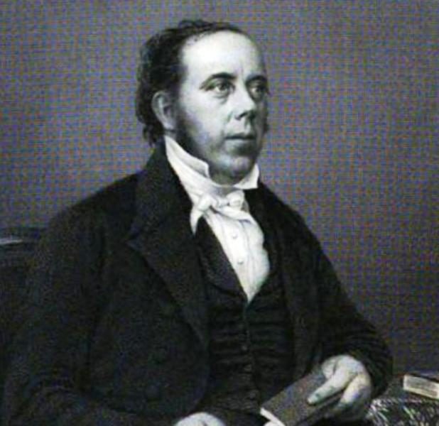 William Knibb engraving